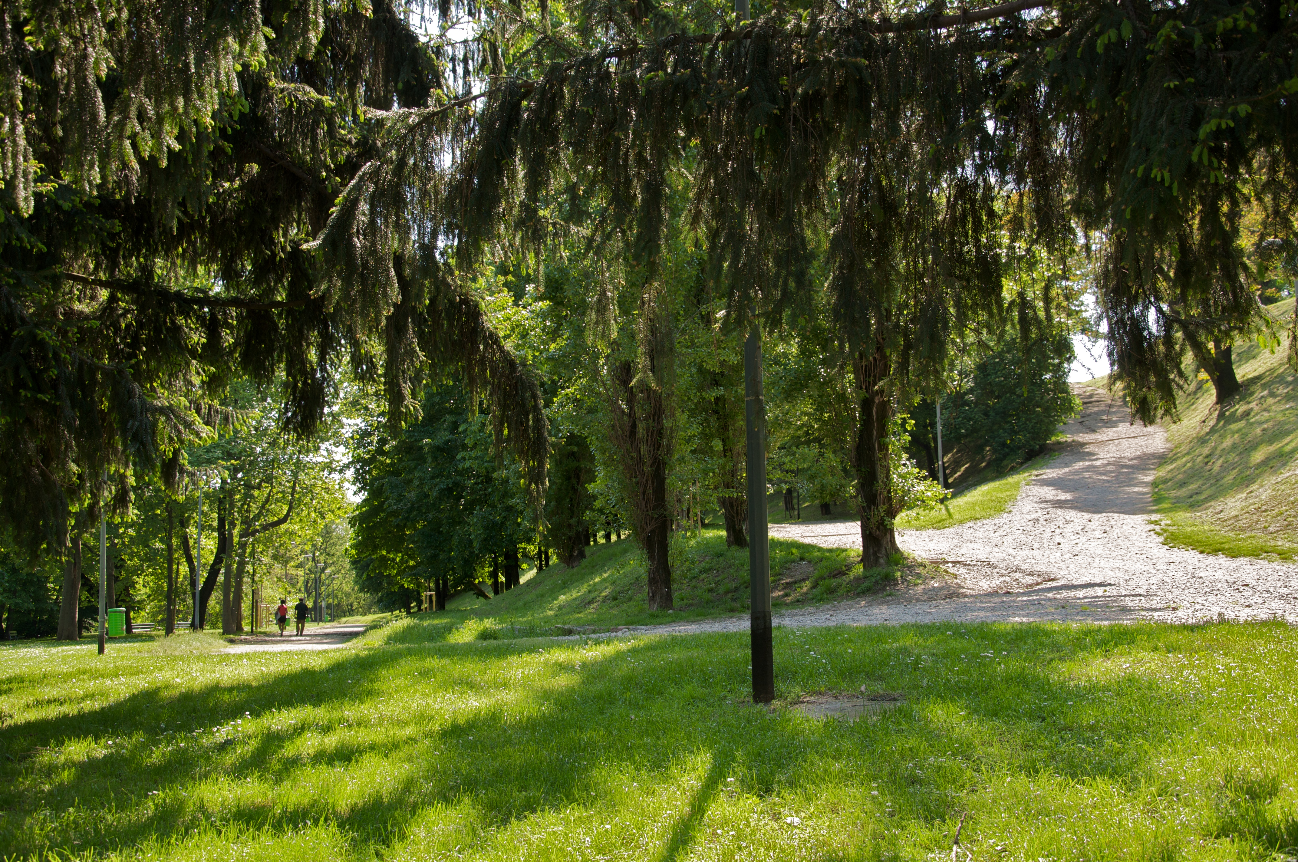 Paths inside Milan Monte Stella Park